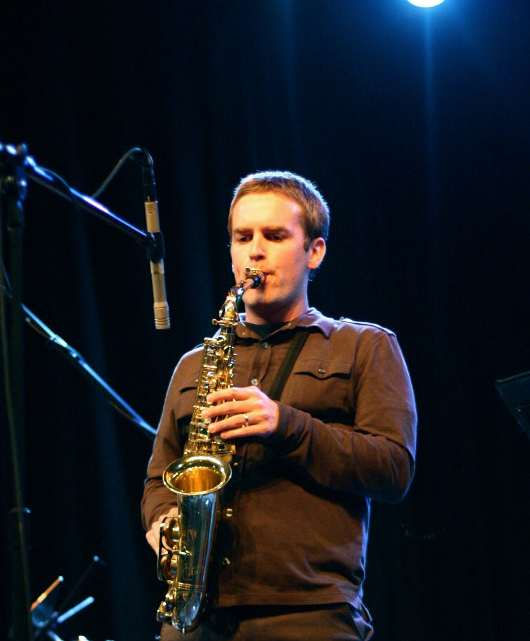 Saxophonist Daniel Bennett at the Cambridge YMCA Theatre